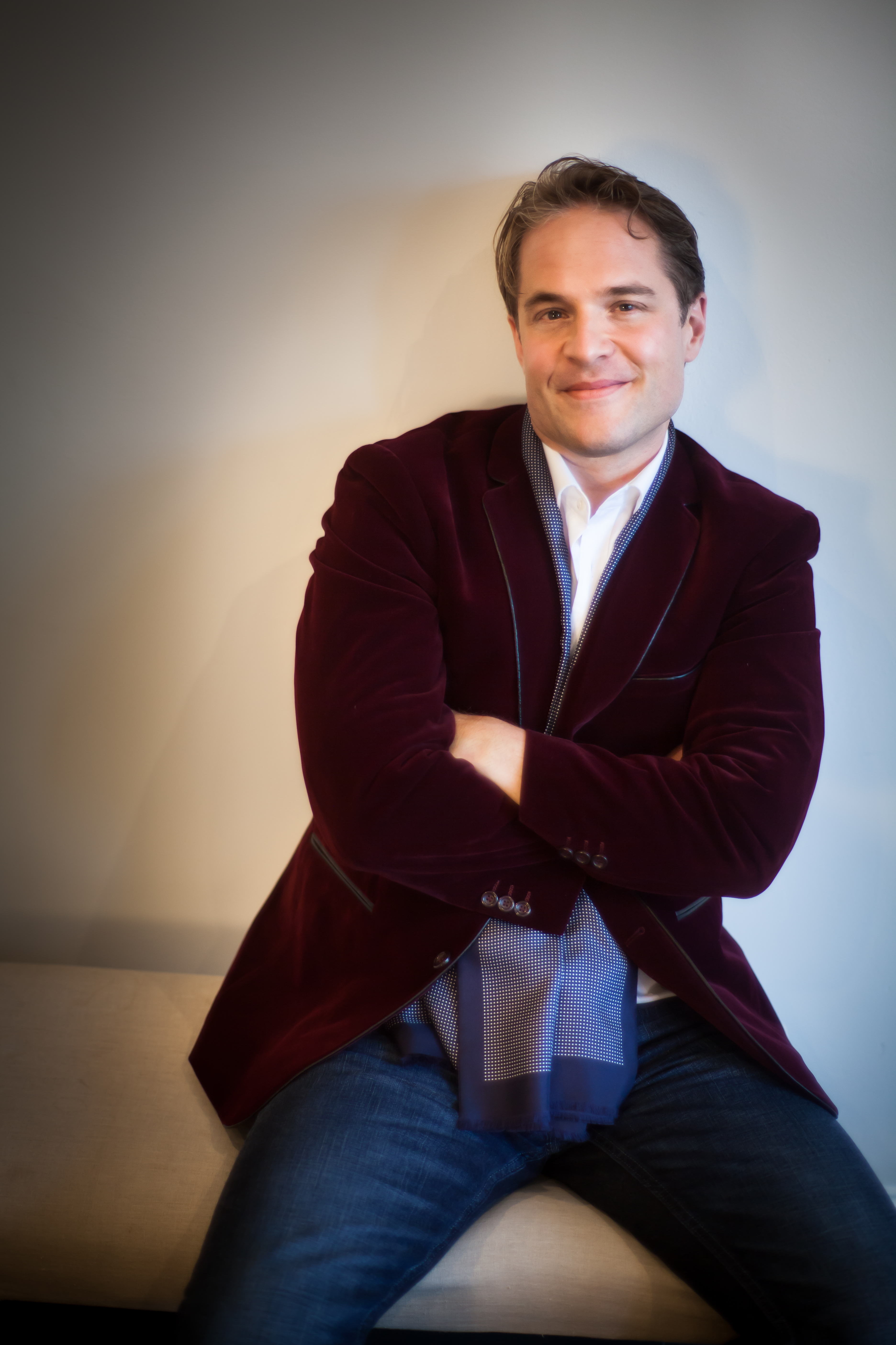 Publicity Photo of Lawrence Zazzo, by Justin Hyer